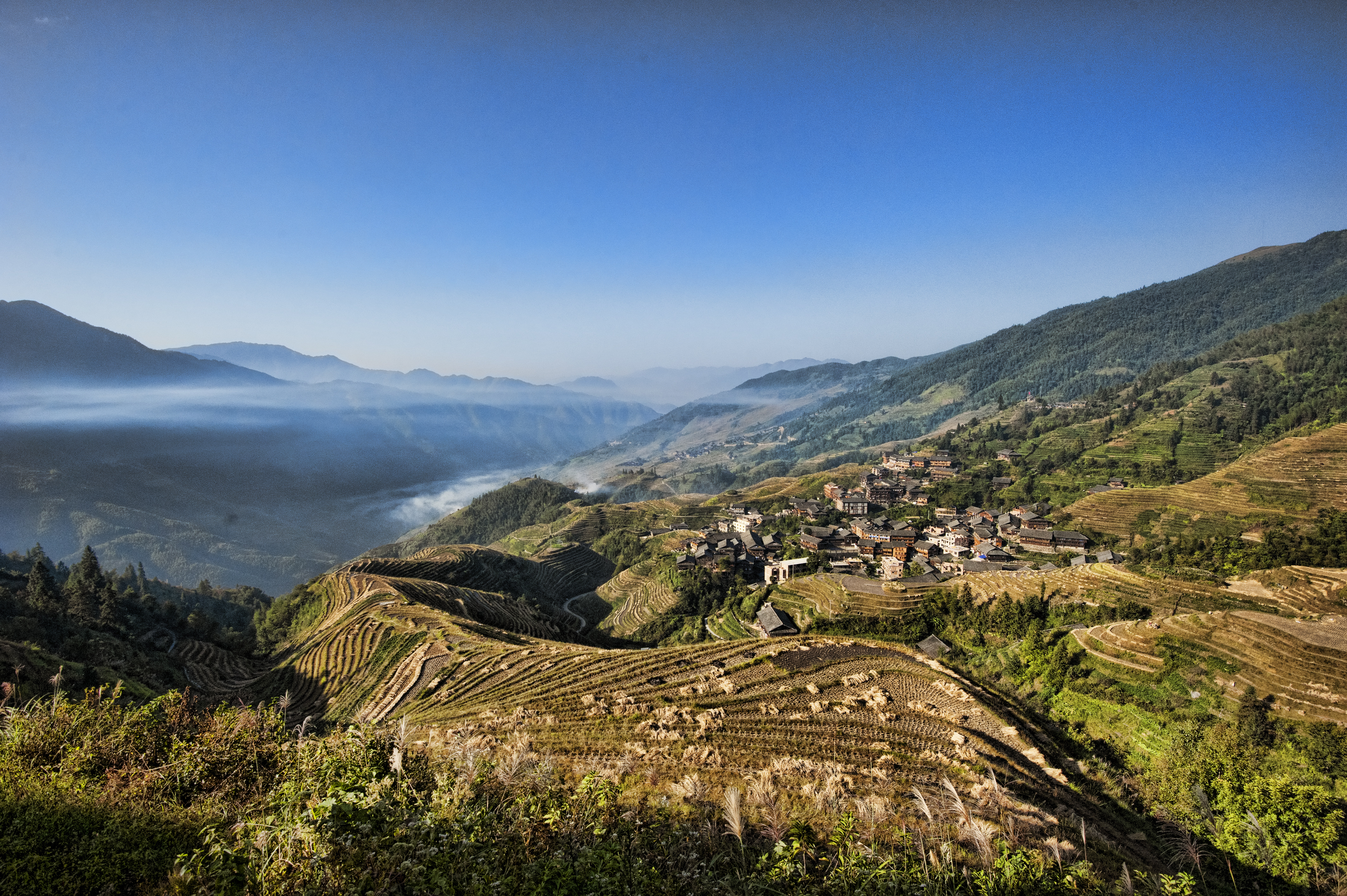 ping an longsheng guilin longji rice terrace jiu long wu hu china 2011